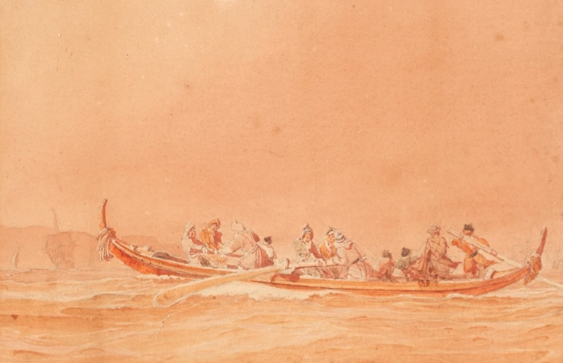 Executed by Emeric Essex Vidal about 1832